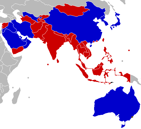 Map of the AFC member states showing who has qualified for the 2015 AFC Asian Cup. Other information Blue for qualified and Red for failed to qualify. Purple for did not enter.